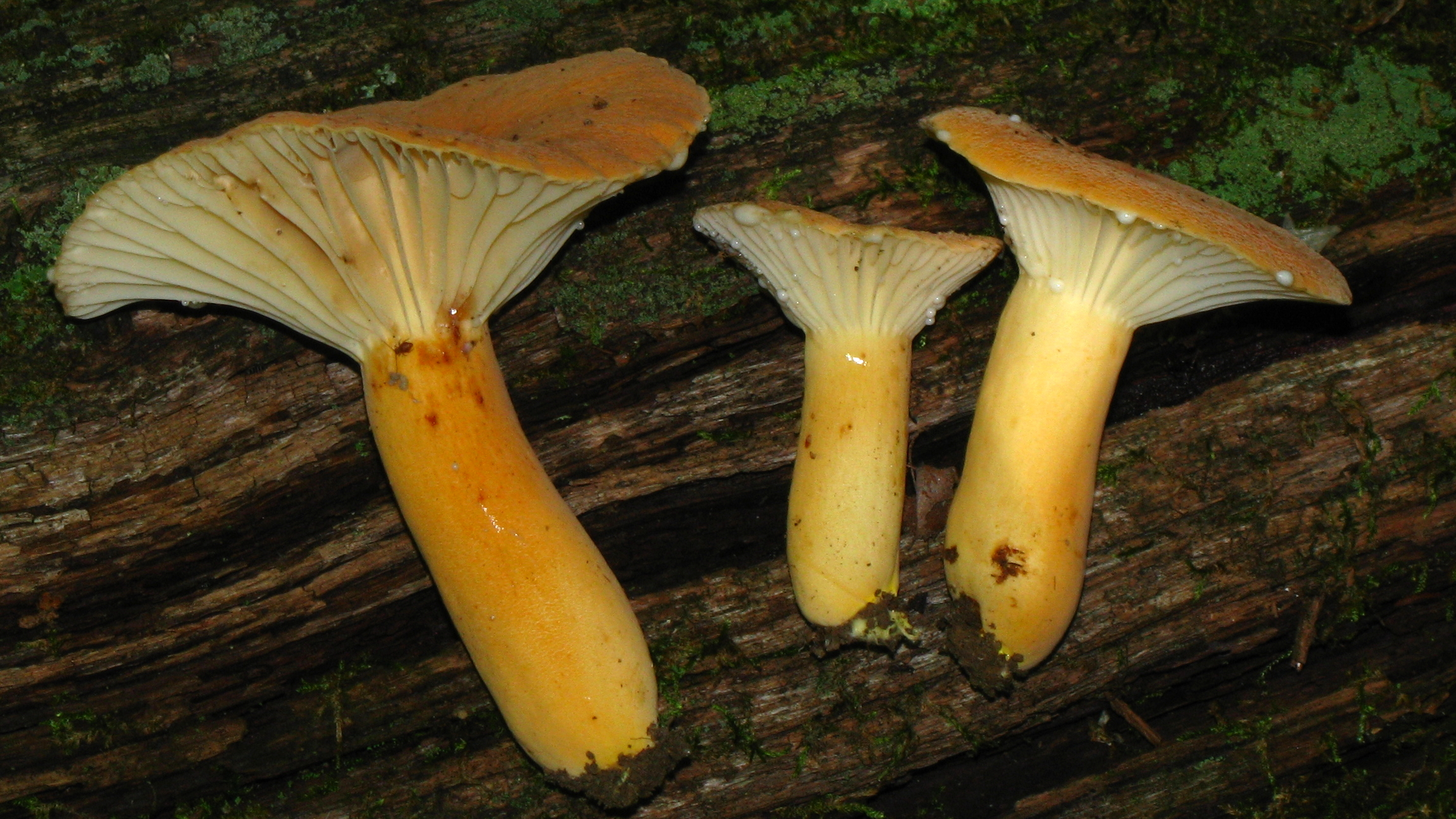 Lactarius hygrophoroides Location: High Bottom Farm, Athens County, Ohio, USA. For more information about this, see the observation page at Mushroom Observer.